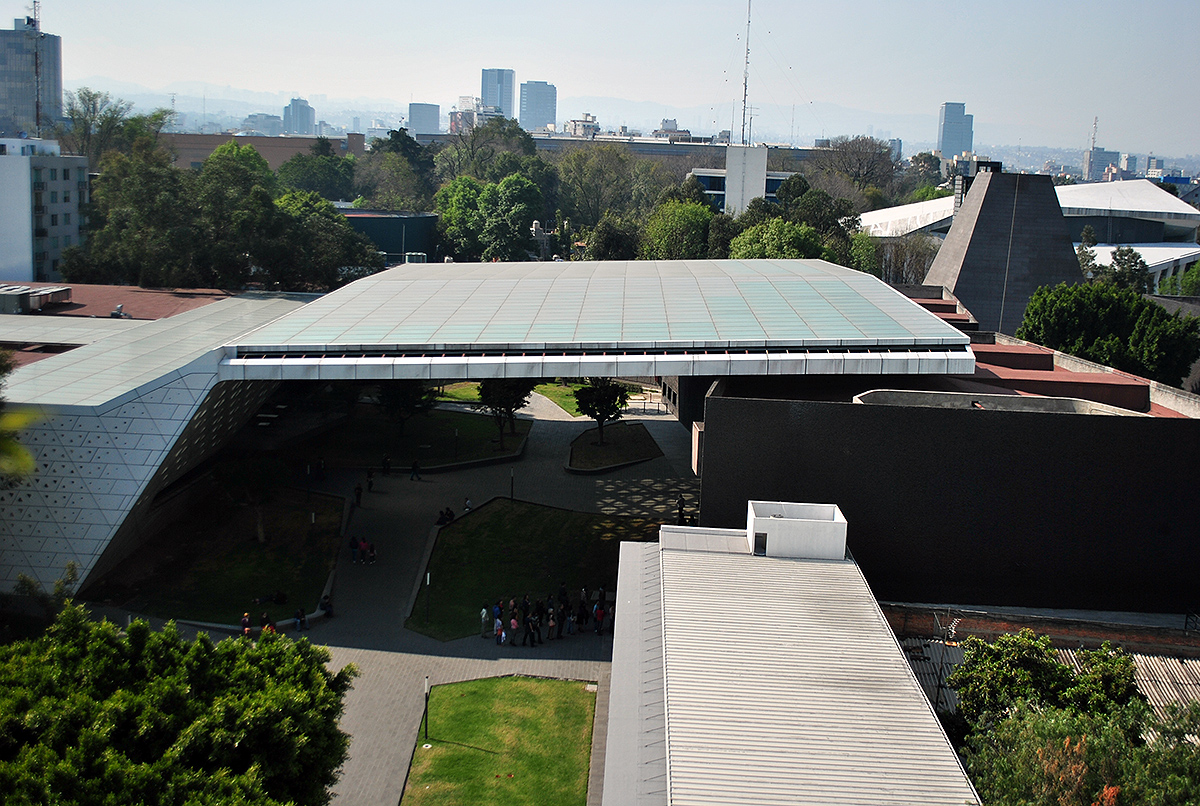 The Cineteca Nacional is an institution dedicated to the preservation, cataloging, exhibition and dissemination of cinema in Mexico. It is under the CONACULTA (National Council for Culture and the Arts). Located in Mexico, it is part of the International Federation of Film Archives.